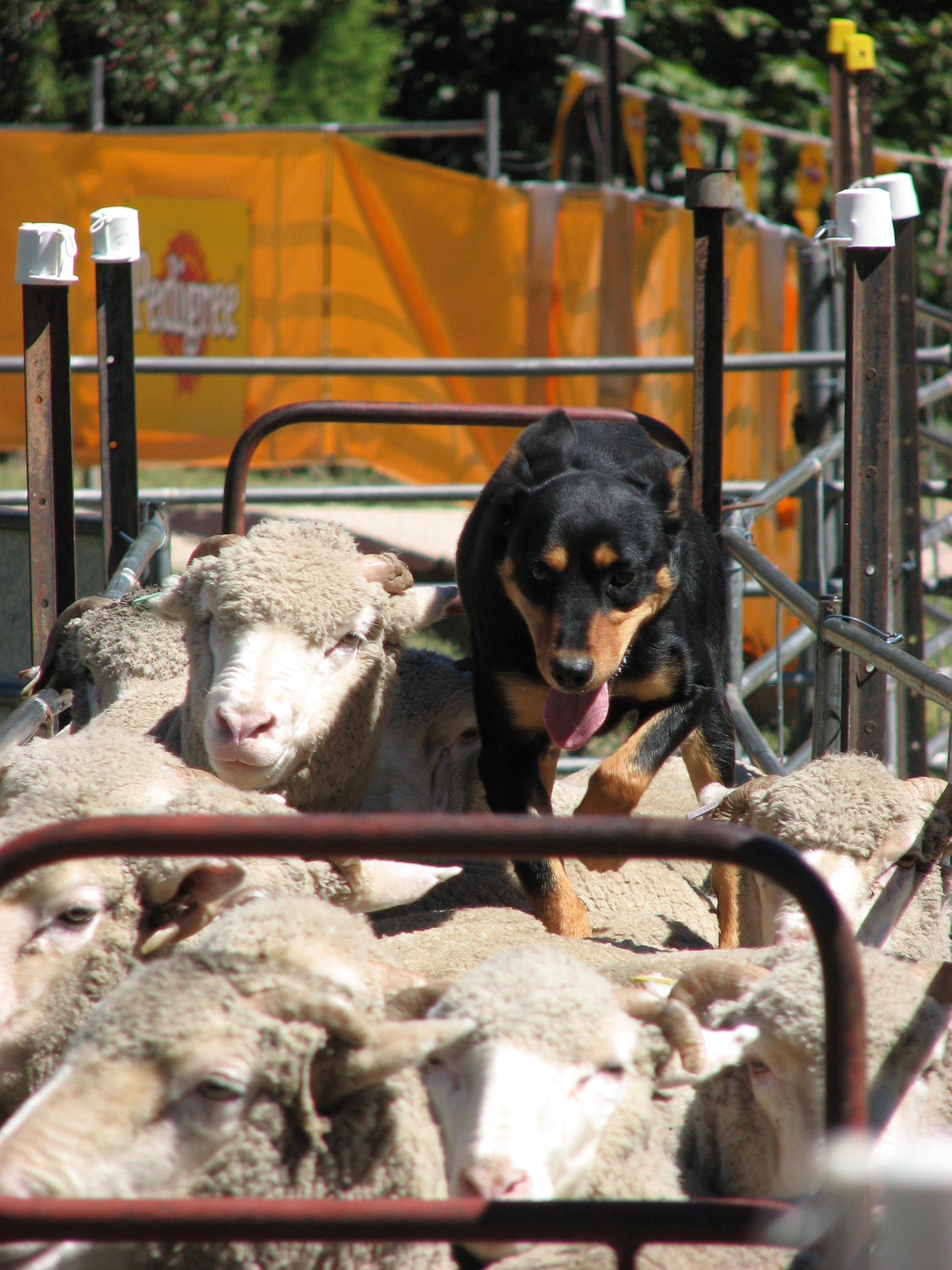 An Australian Kelpie sheepdog backing sheep in order to reach the lead sheep in the flock to drive it along.